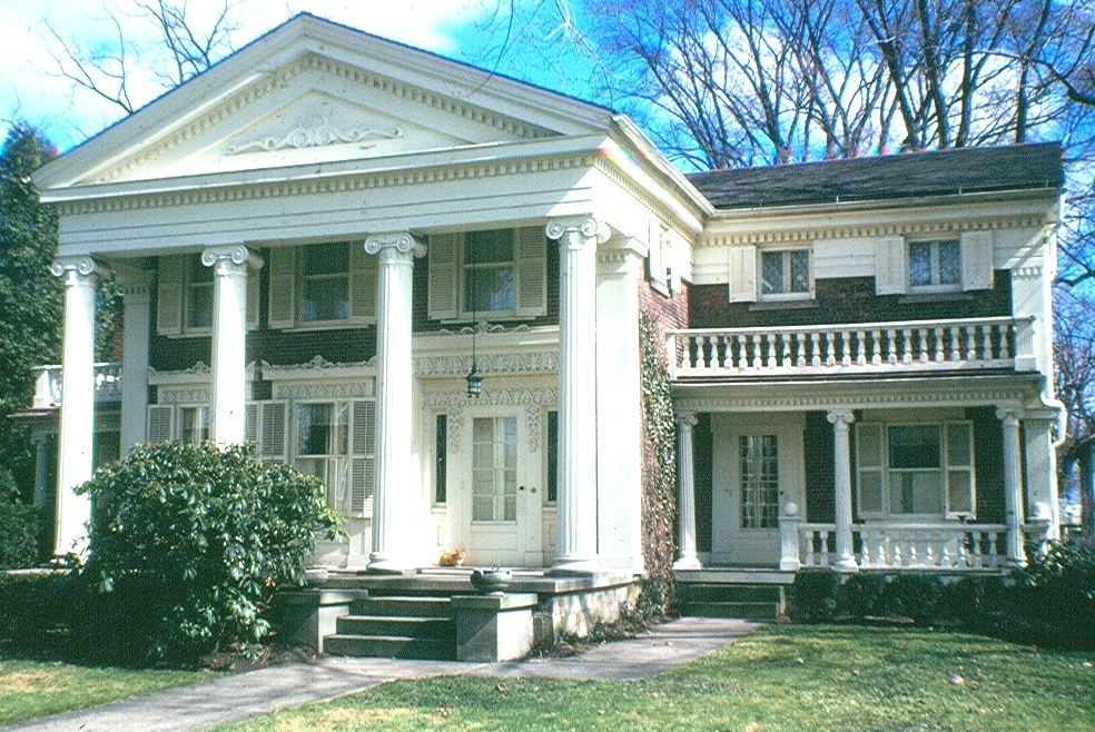 Photo by John Blakeman (myself), conveyed here to the public domain without any reserved rights.